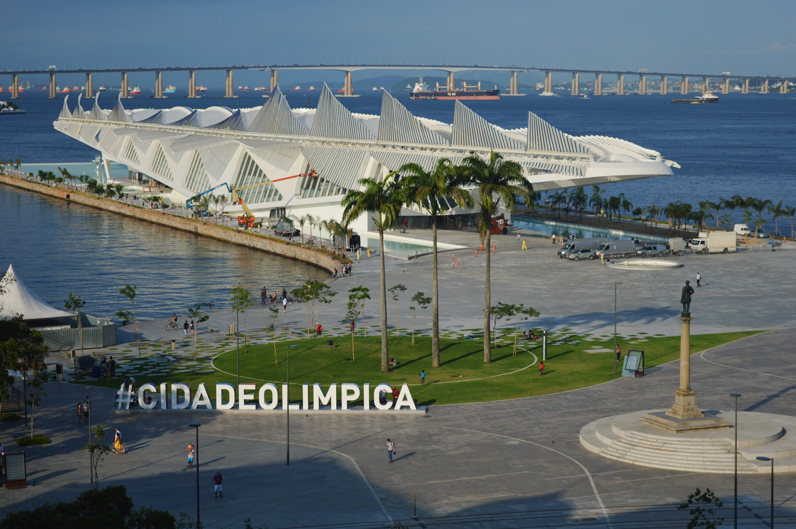 (Museum of Tomorrow, Rio)